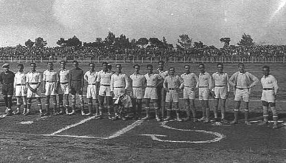 Union Sportive Tunisienne UST team